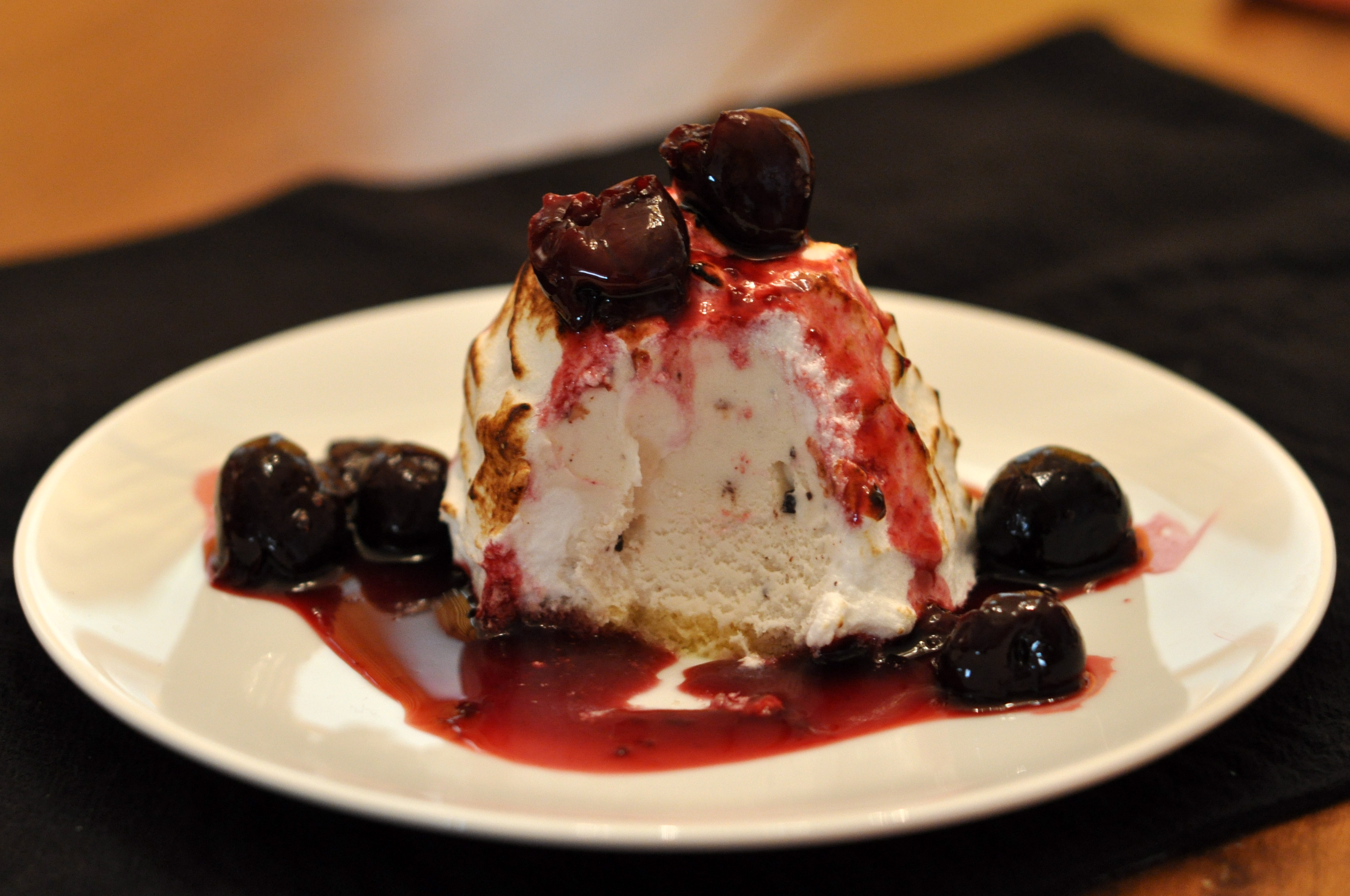 Baked Alaska with Cherry Garcia Ice Cream and Cherries Jubilee Topping